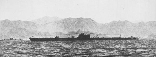 Japanese submarine I-175 (KAIDAI-class type VIb), renamed from I-75 in 1942.